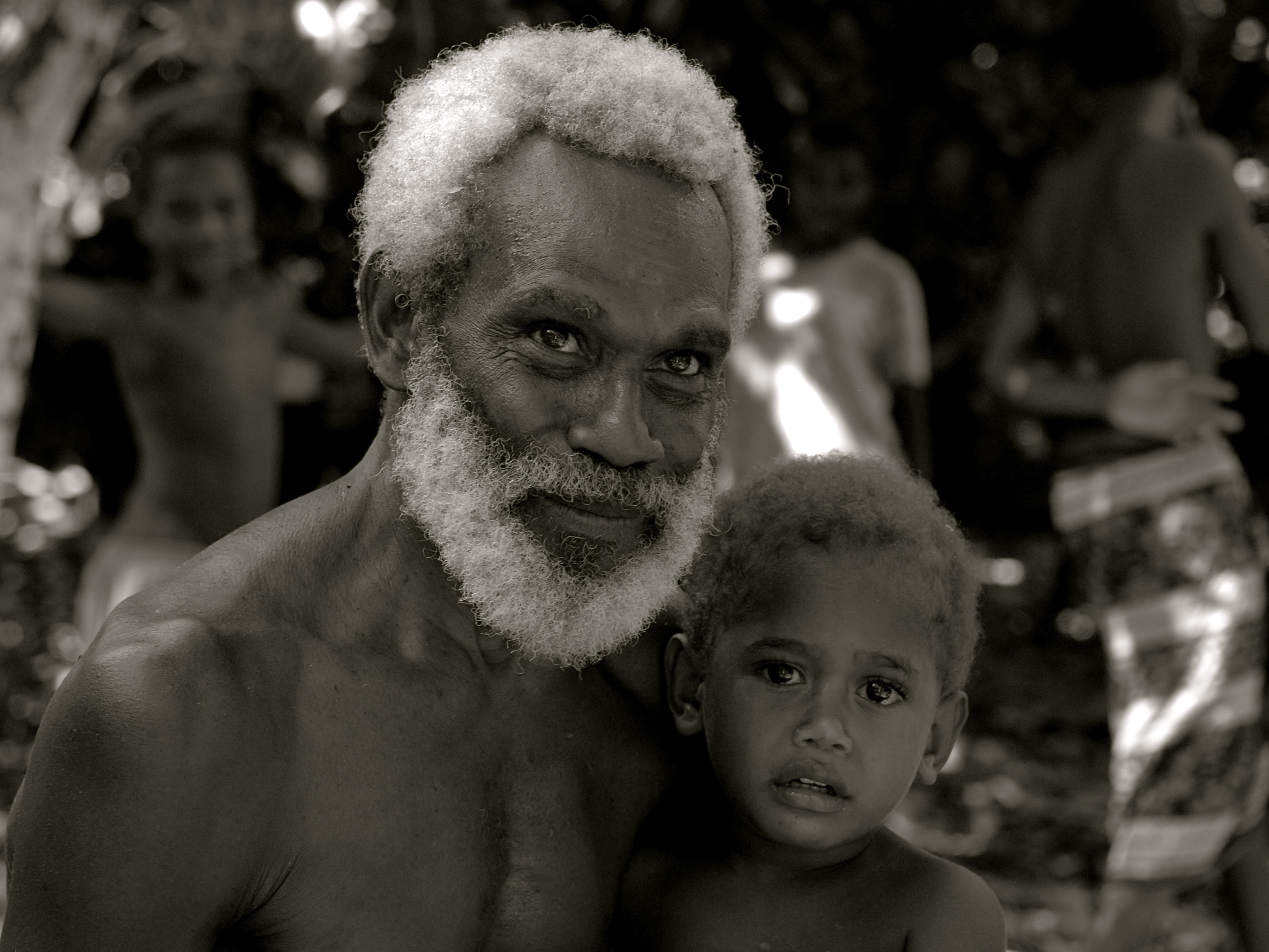 A man with his grandson in East New Britain, Papua New Guinea.